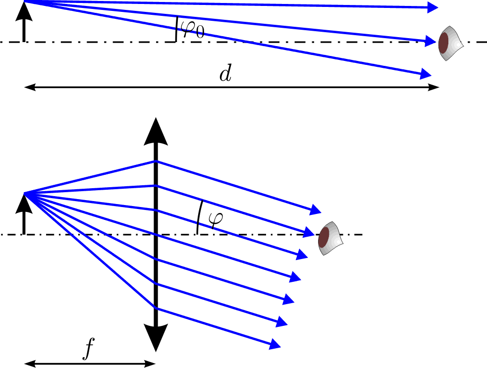 The ray diagram illustrating the magnifying ability of a lens.